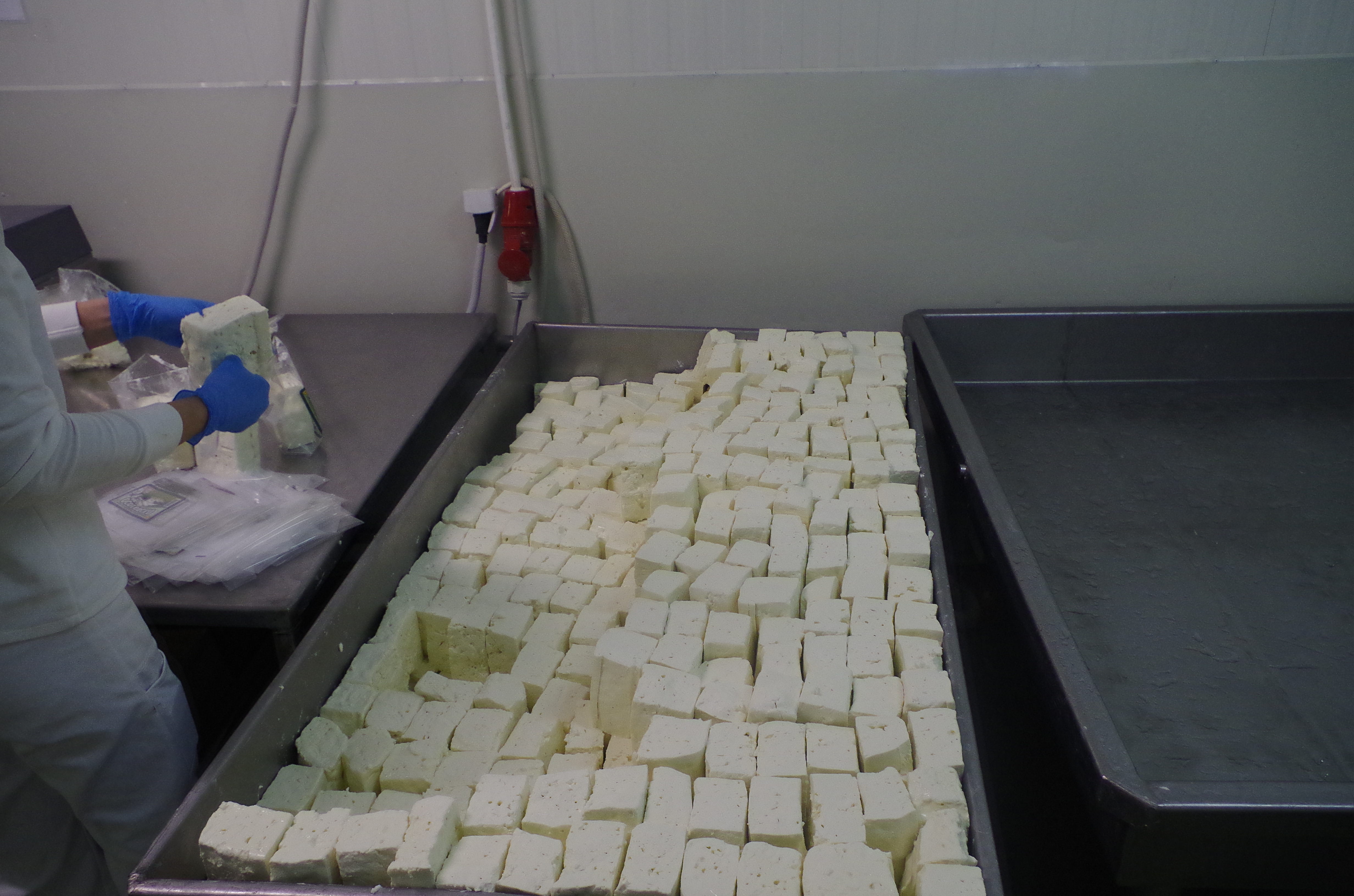 Dairy Osogovo Milk in Sokolarci, Macedonia